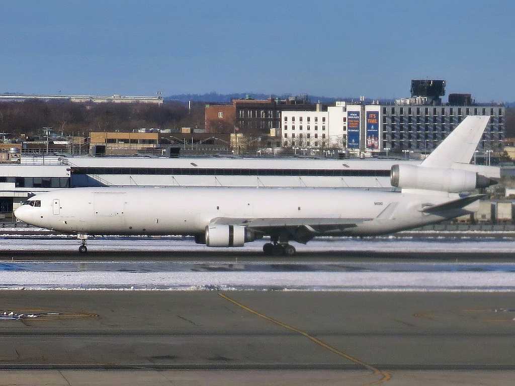 A Western Global Airlines MD-11, operating for UPS is deploying thrust reversers after landing on Runway 31R at JFK Airport.